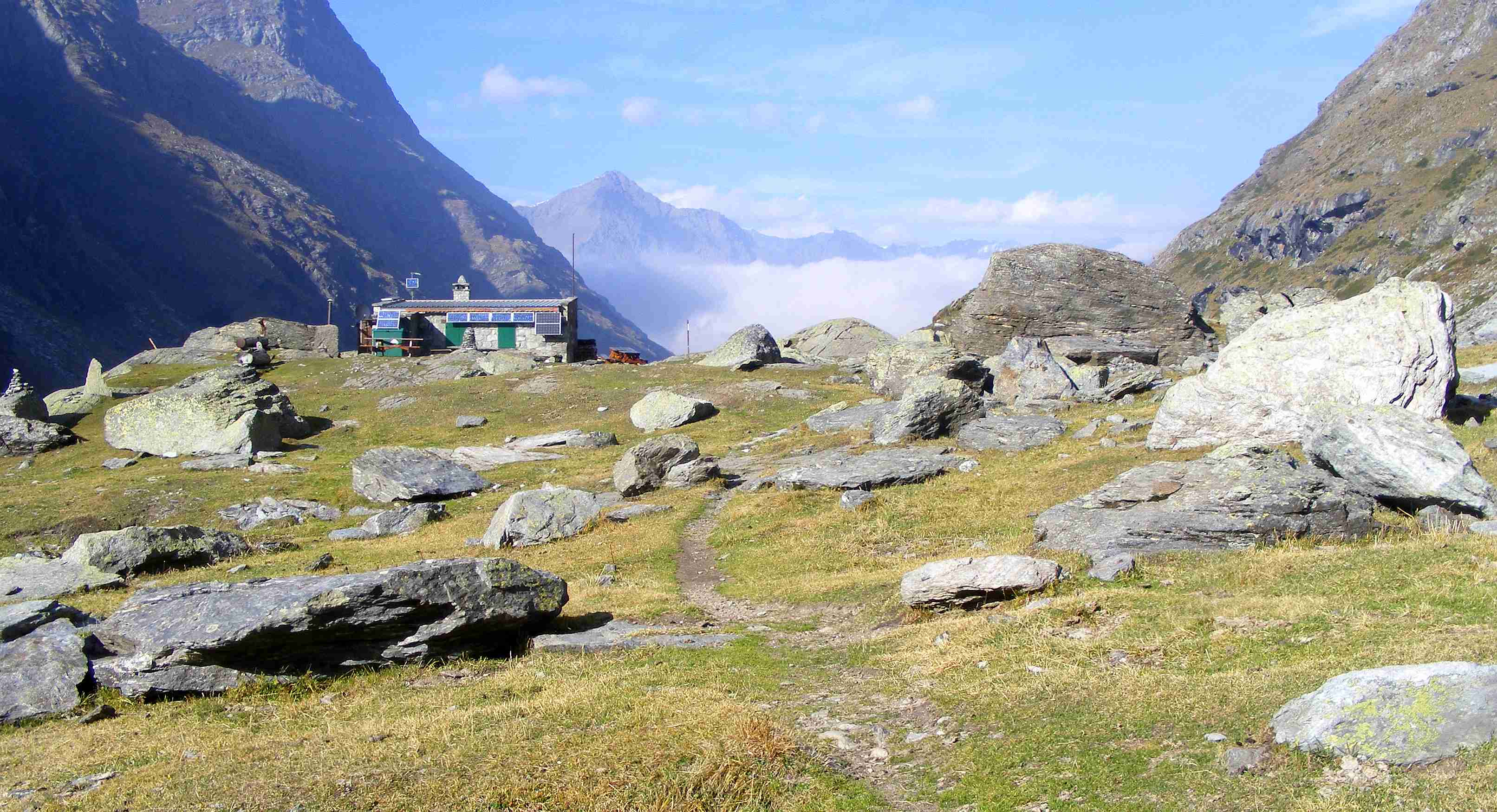 Refuge d'Ambin; on the background Pointe Clairy (3.162 m) - Savoy, France, Cottian Alps